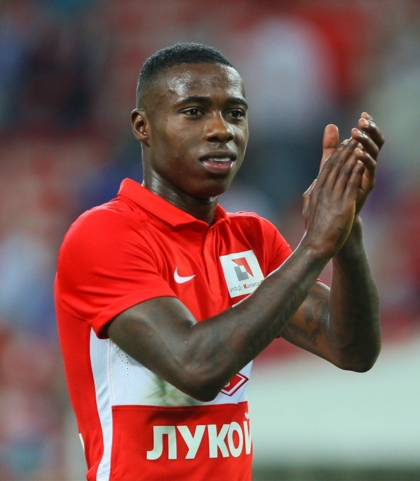 Quincy Promes